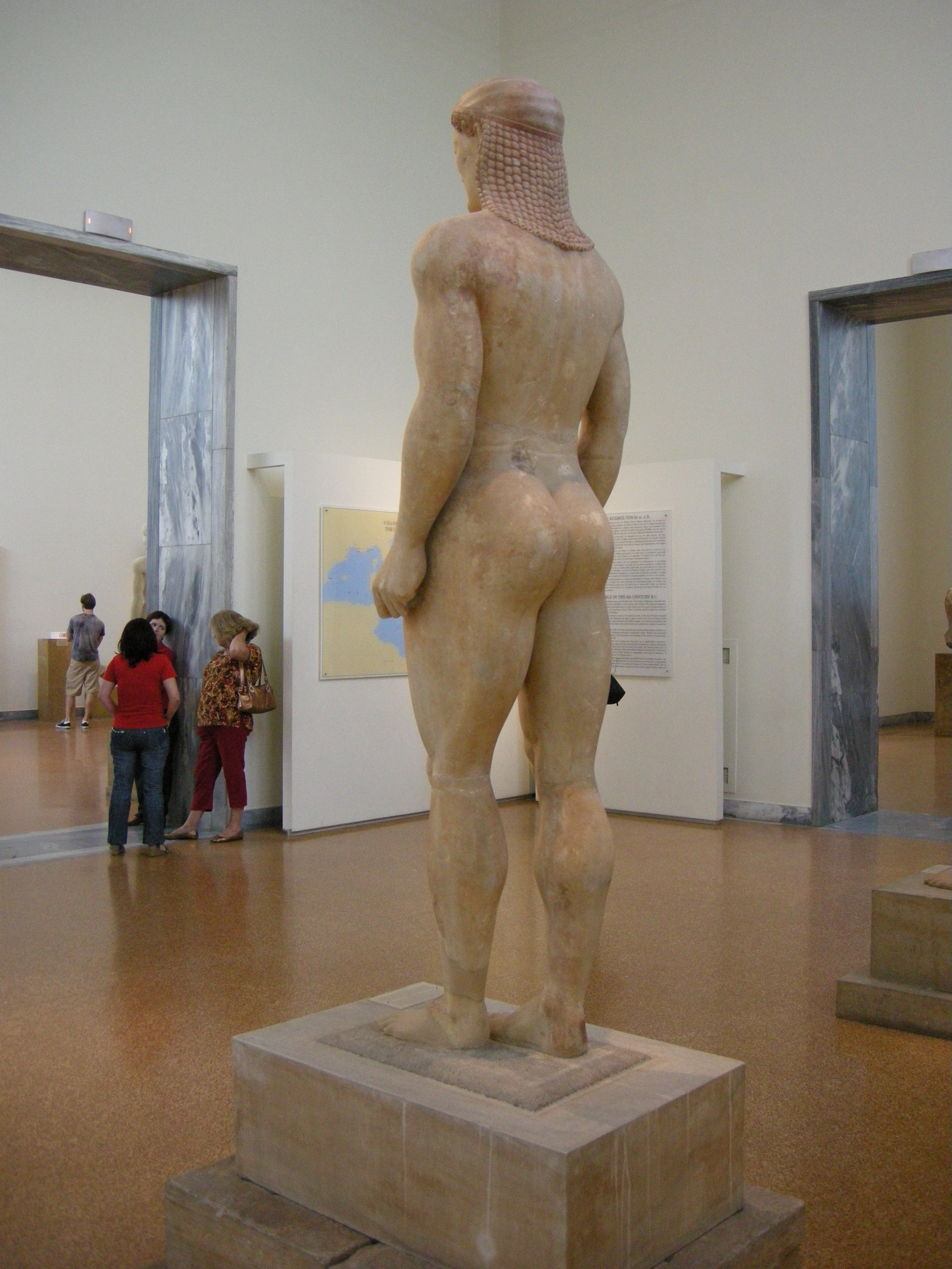 The Kroisos Kouros, in Parian marble, found in Anavyssos (Greece), dating from circa 530 BC, now exhibited at the National Archaeological Museum of Athens.